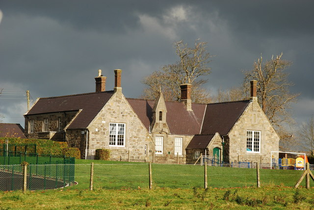 Ysgol Gynradd Llandwrog Primary School A Church in Wales Voluntary Controlled School The school was built over 150 years ago as an integral part of the Glynllifon estate village.